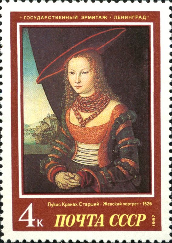 A USSR stamp, European Art in Hermitage Museum. Date of issue: 5th June 1987. Designer: G. Komlev Michel catalogue number: 5717. Scott 5560. 4 K. multicoloured. “Portrait of a Woman” (LucasCranach the Elder, 1526)